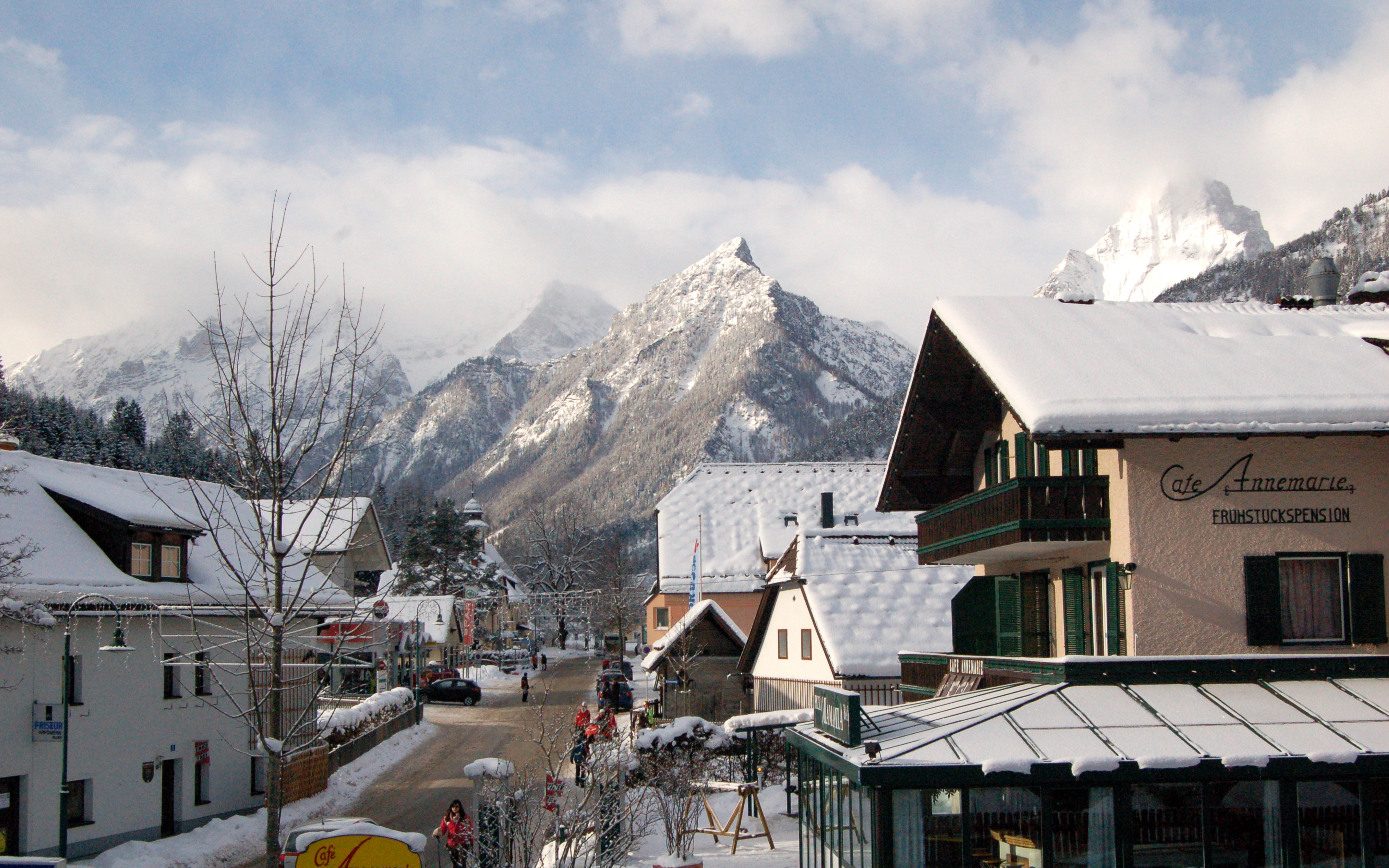 Main road in Hinterstoder, Upper Austria. In the background the mountains Ostrawitz (1823m) and Spitzmauer (2446m).